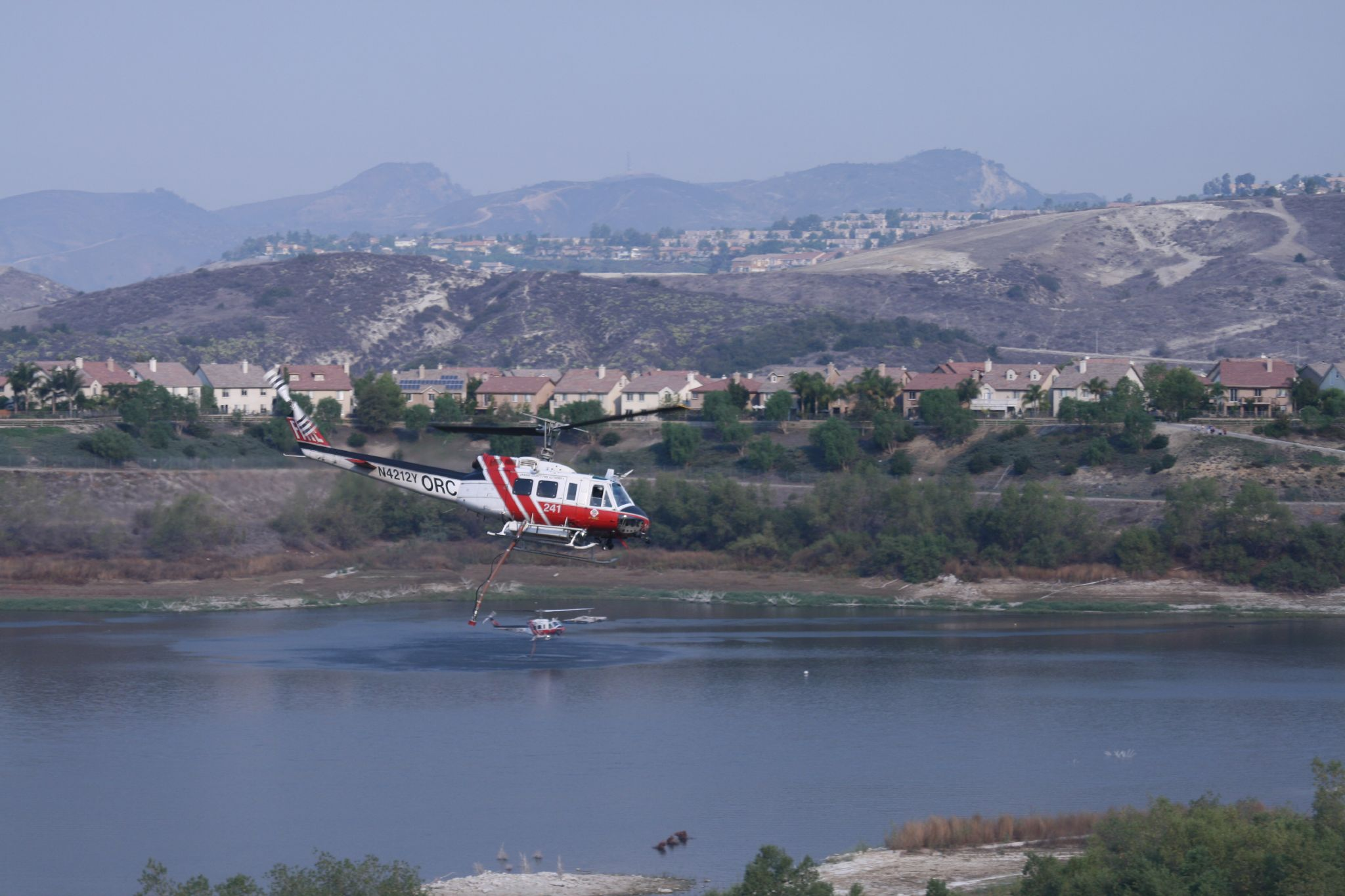 the helicopers are finally getting a good jump on the fire. there were 4 helicopters reloading their tanks at this resevoir that borders the 241 tollroad on the west, the painted trails tract on the north, and o'neill park on the east. 10 am wednesday.